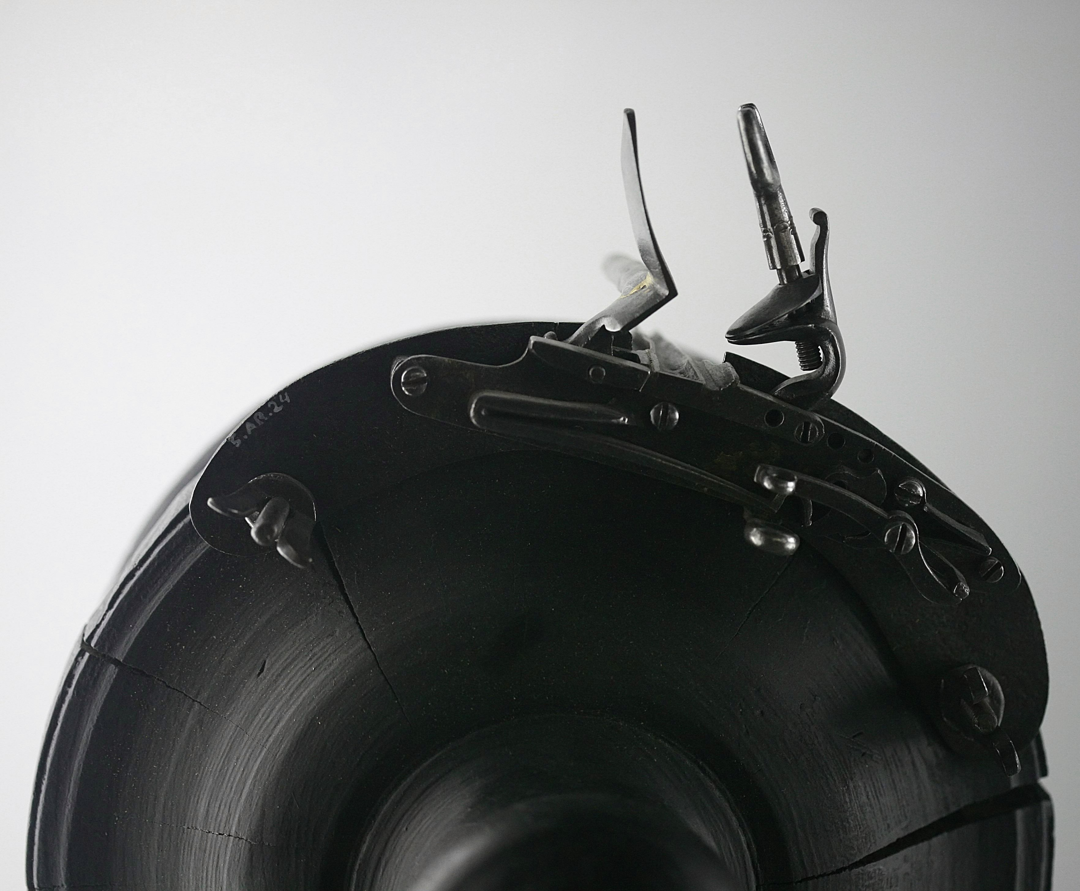 Flinstone firing system of naval long guns of the late 18th century